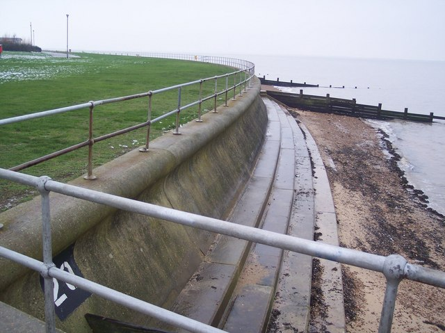 Sea Wall near Allhallows On Sea The coastline around this area has been protected by a large concrete wall, this protects a large Haven Holiday Caravan Park.